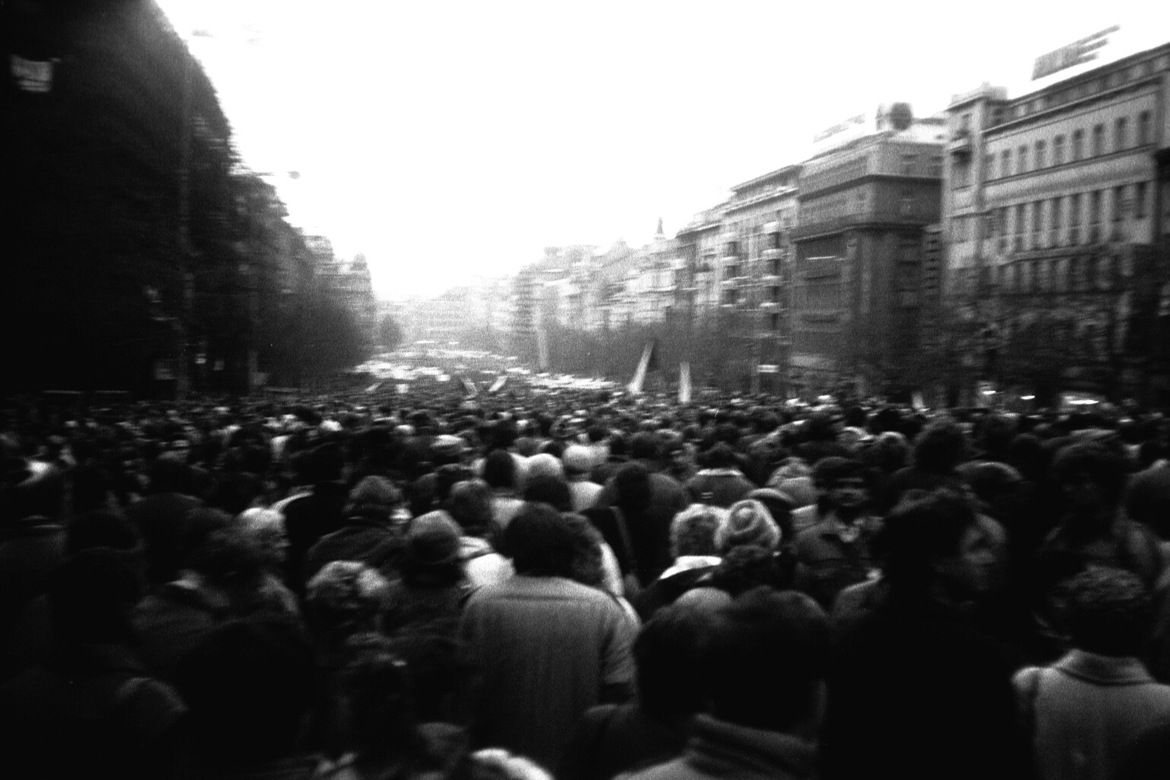 Prague, Wenceslas Square during the Velvet Revolution.